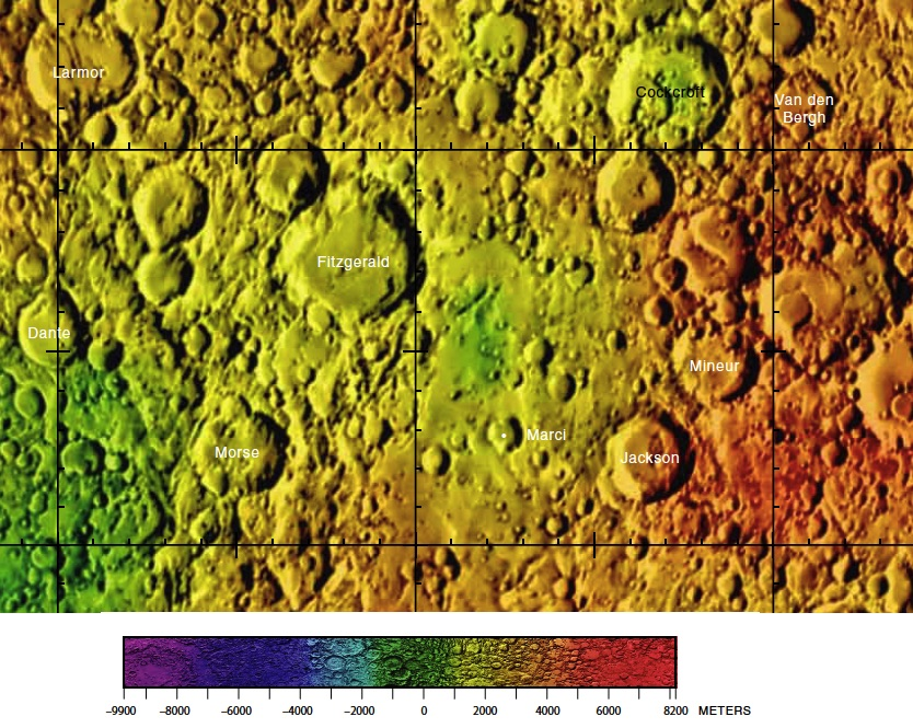 Part of the USGS far side lunar chart